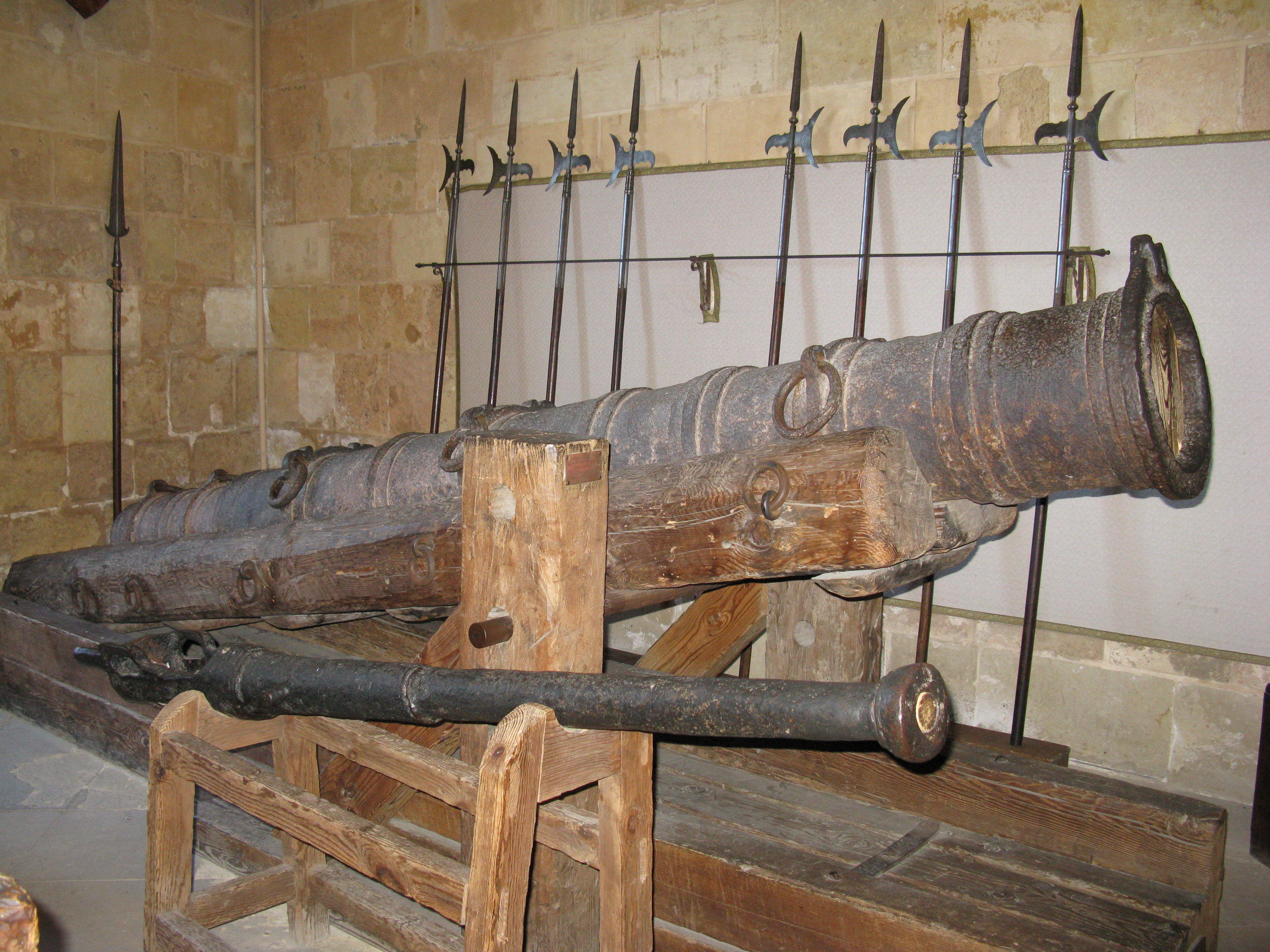 Historical Spanish cannons. Alcázar of Segovia (Spain).